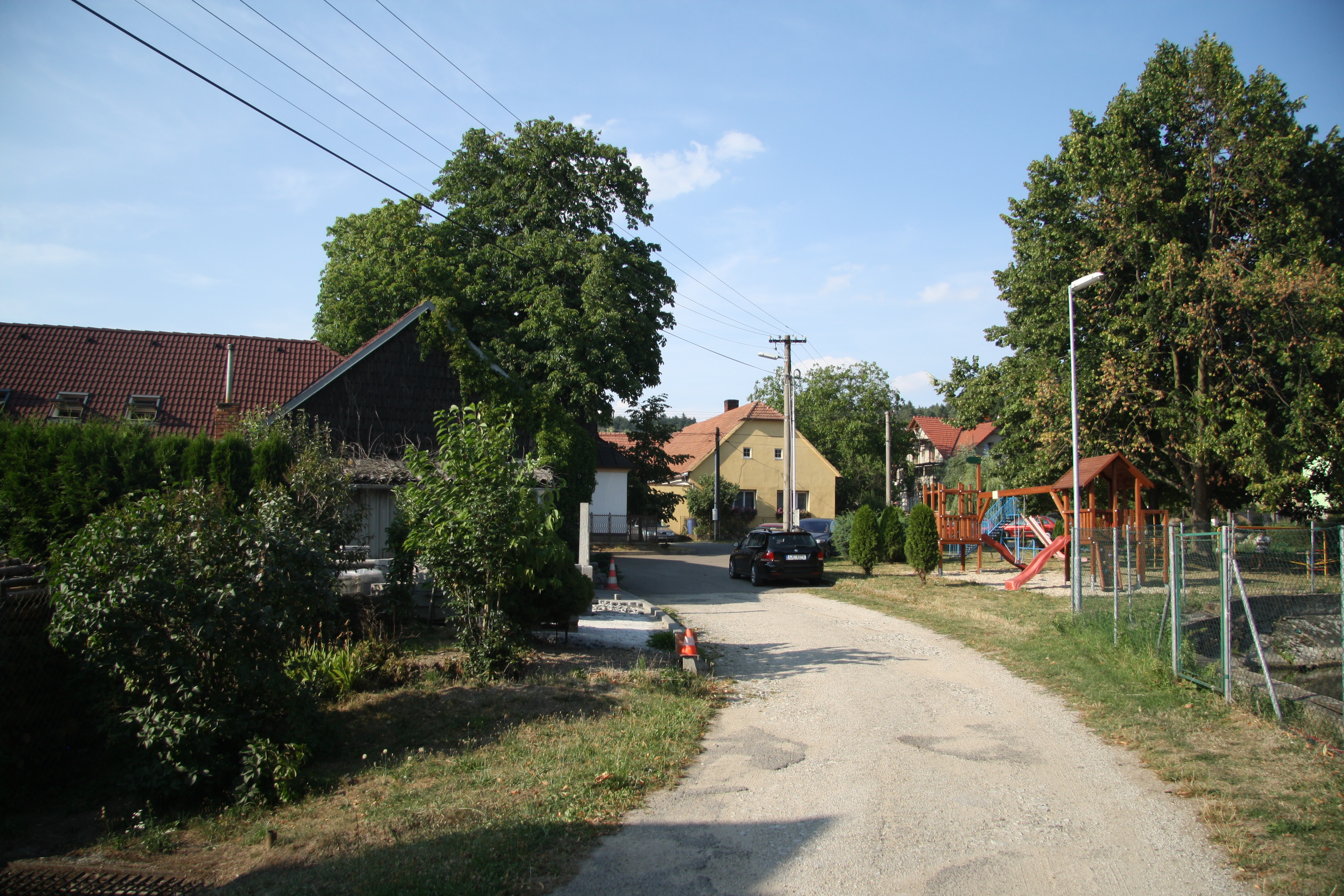 Center of Kúsky, Velké Meziříčí, Žďár nad Sázavou District